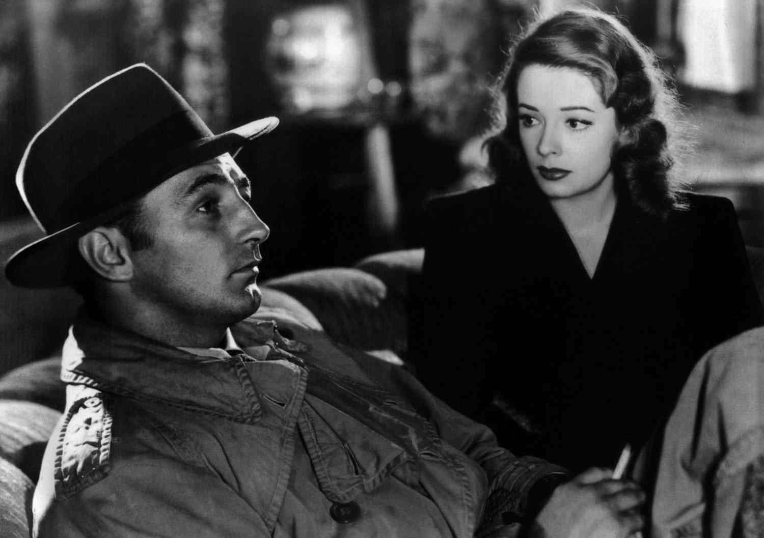 Low-resolution reproduction of publicity photograph for the film Out of the Past (1947), featuring stars Robert Mitchum and Jane Greer Public domain explanation The image was distributed as a promotional photograph in the U.S. in 1946 for use by the general media, satisfying the definition of "publication." There is no evidence that it was distributed with copyright notice, as then required for copyright protection. A search of copyright renewal records for 1974 and 1975 ([1], [2], [3], [4]) reveals that no renewal was filed as would have been required to maintain copyright protection, if any, on any bound collection of material that might encompass this photograph. There is no evidence that RKO Pictures LLC, the corporate heir to the original property rights holder, claims copyright on the image.